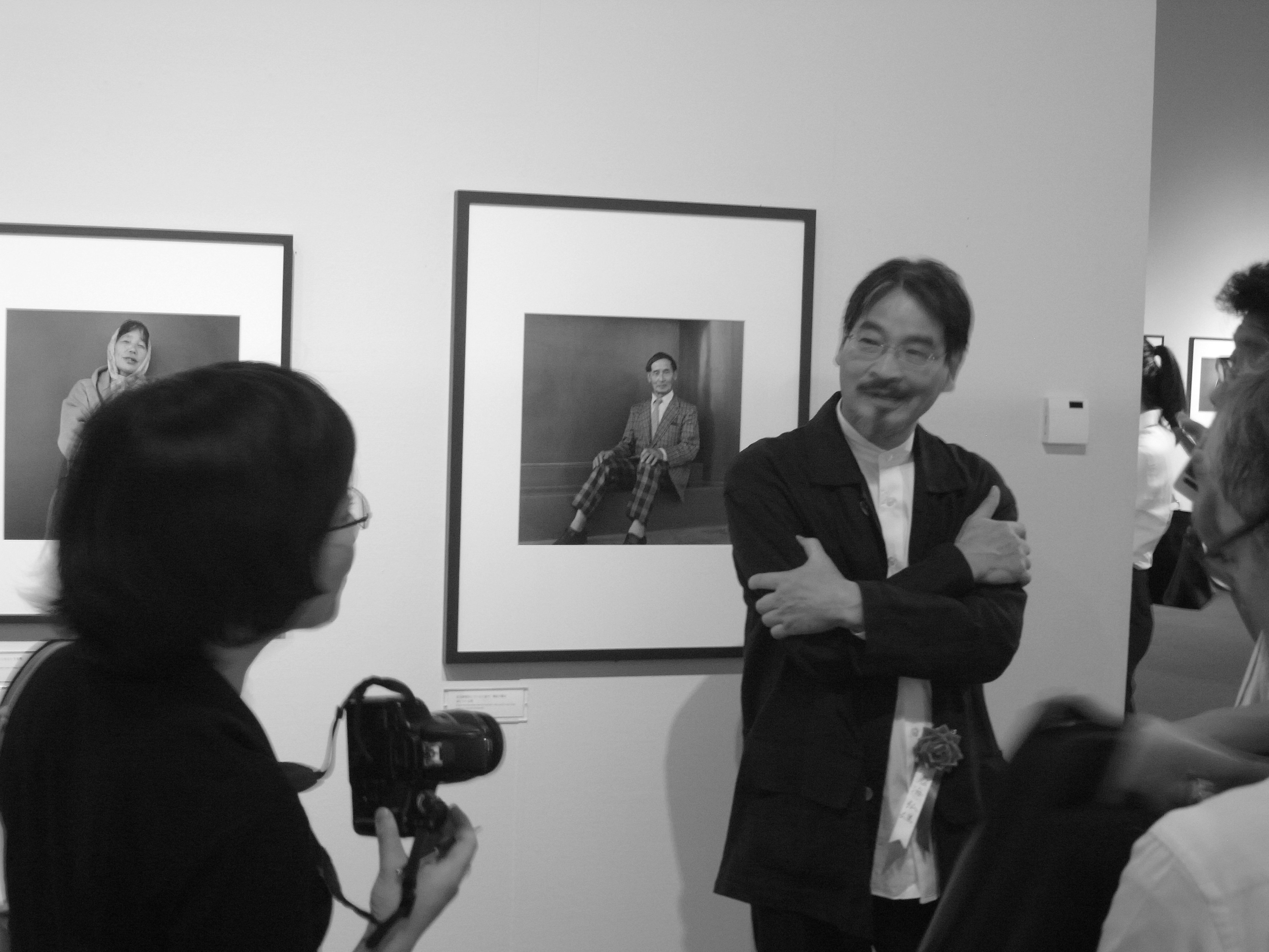 Hiroh Kikai (鬼海弘雄) interviewed in the press preview of his exhibition "Tokyo Portraits" (東京ポートレイト) at the Tokyo Metropolitan Museum of Photography (東京都写真美術館), 12 August 2011